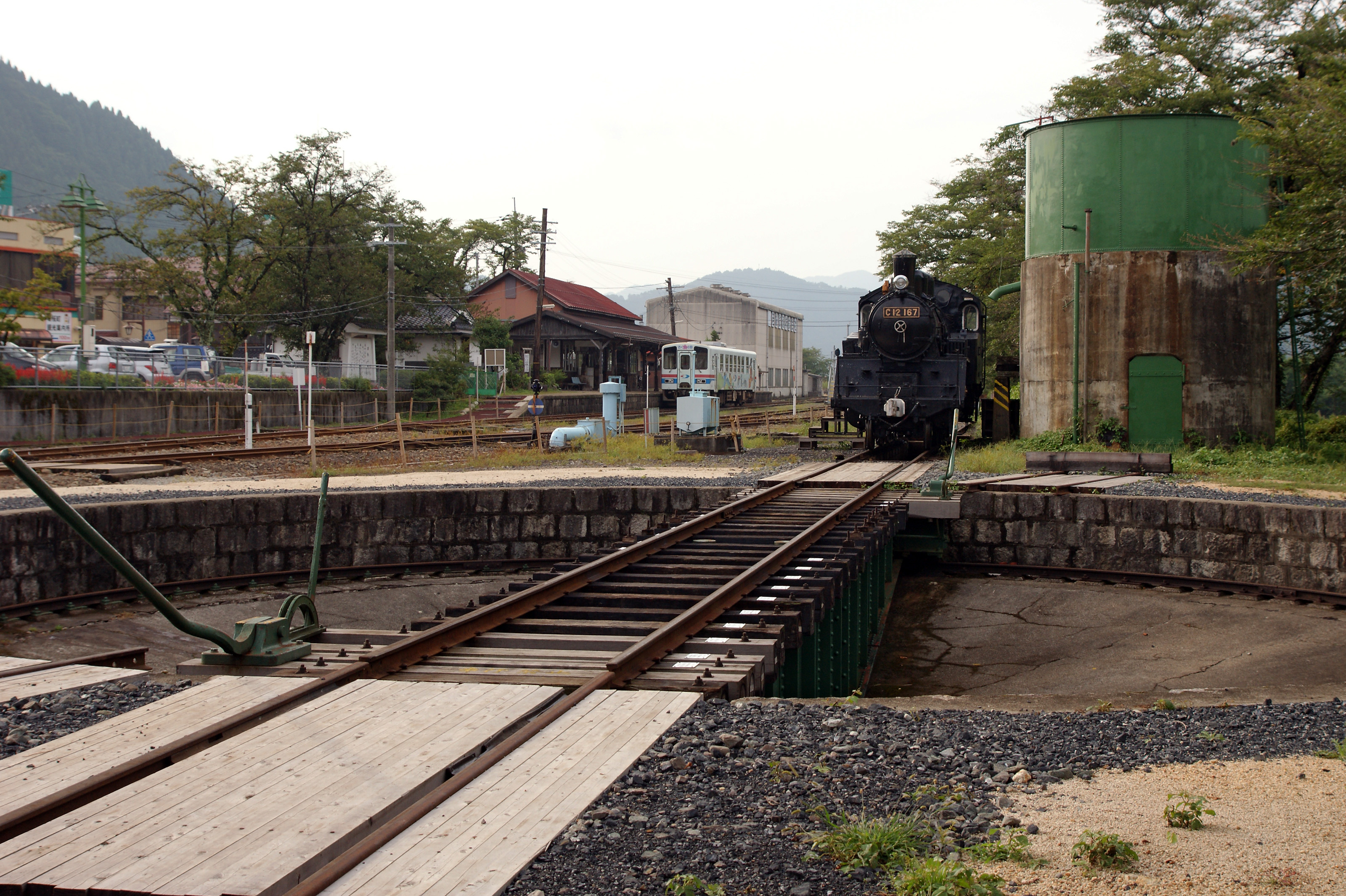 Wakasa Station in Wakasa, Tottori prefecture, Japan